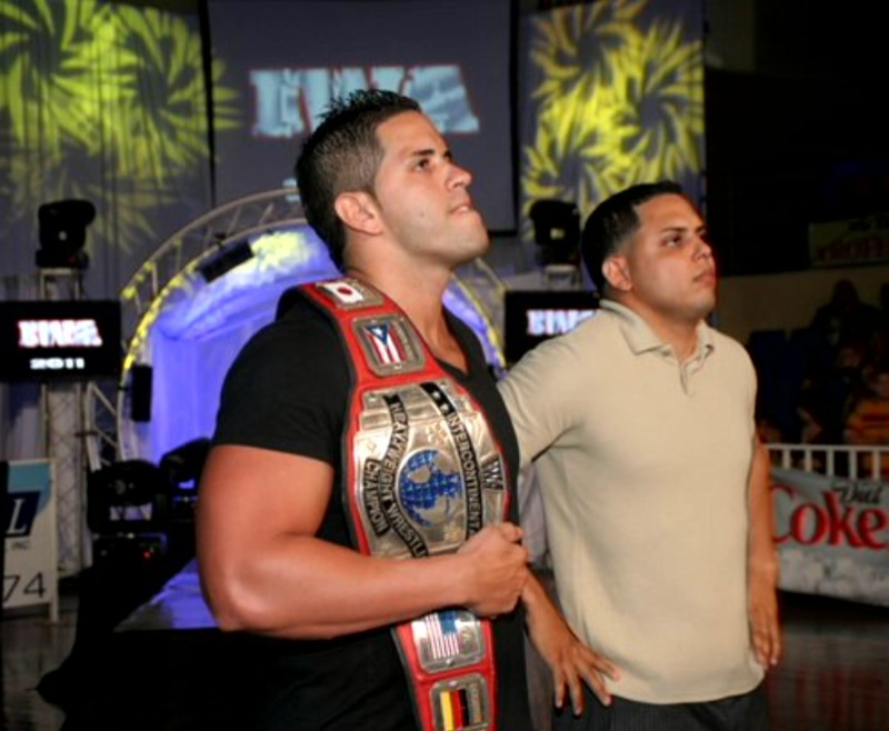 The International Wrestling Association's "The Academy" stable, Chris Angel with the IWA Intercontinental Heavyweight Championship (left) and Phillip Davian (right) at Juicio Final 2011. Taken from the ringside seats during the show's main event promo.